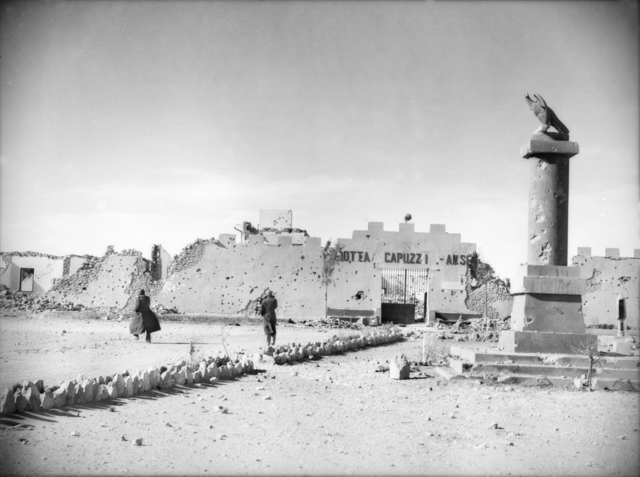 Fort Capuzzo, Libya. Courtyard in front of the Italian fort recently taken by British troops. The Imperial Roman eagle in front of the main gateway shows the scars of battle.